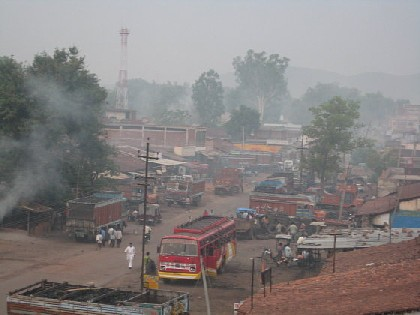 This is the picture of Chandwa town in Latehar District of Jharkhand State. This picture is of the garage lane taken from the roof top of Rakesh's House. Summary This is the picture of Chandwa town in Latehar District of Jharkhand State. This picture is of the garage lane taken from the roof top of Rakesh's House.